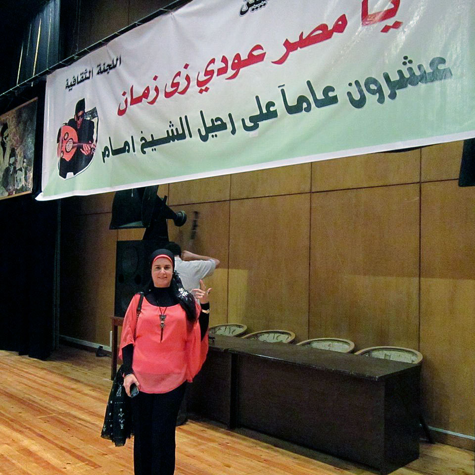 Sheikh Imam memory